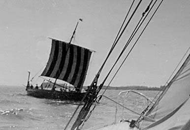 A Viking ship tackling the wind - (photo Uwe Kils)